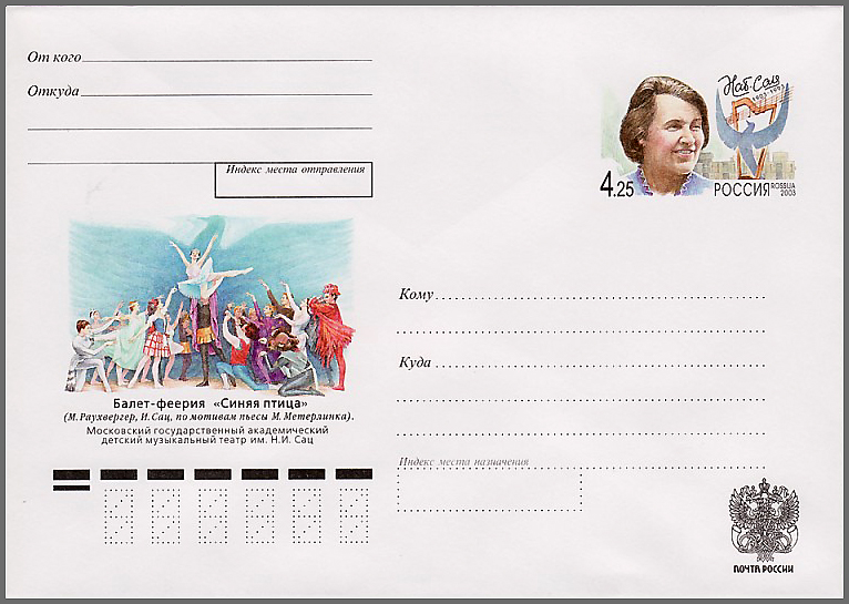 Russia, 2003. Envelope with commemorative stamp (EWCS) № 126. 100th birth anniversary of Natalia Sats, theater director. Envelope design by B. Ilyukhin.